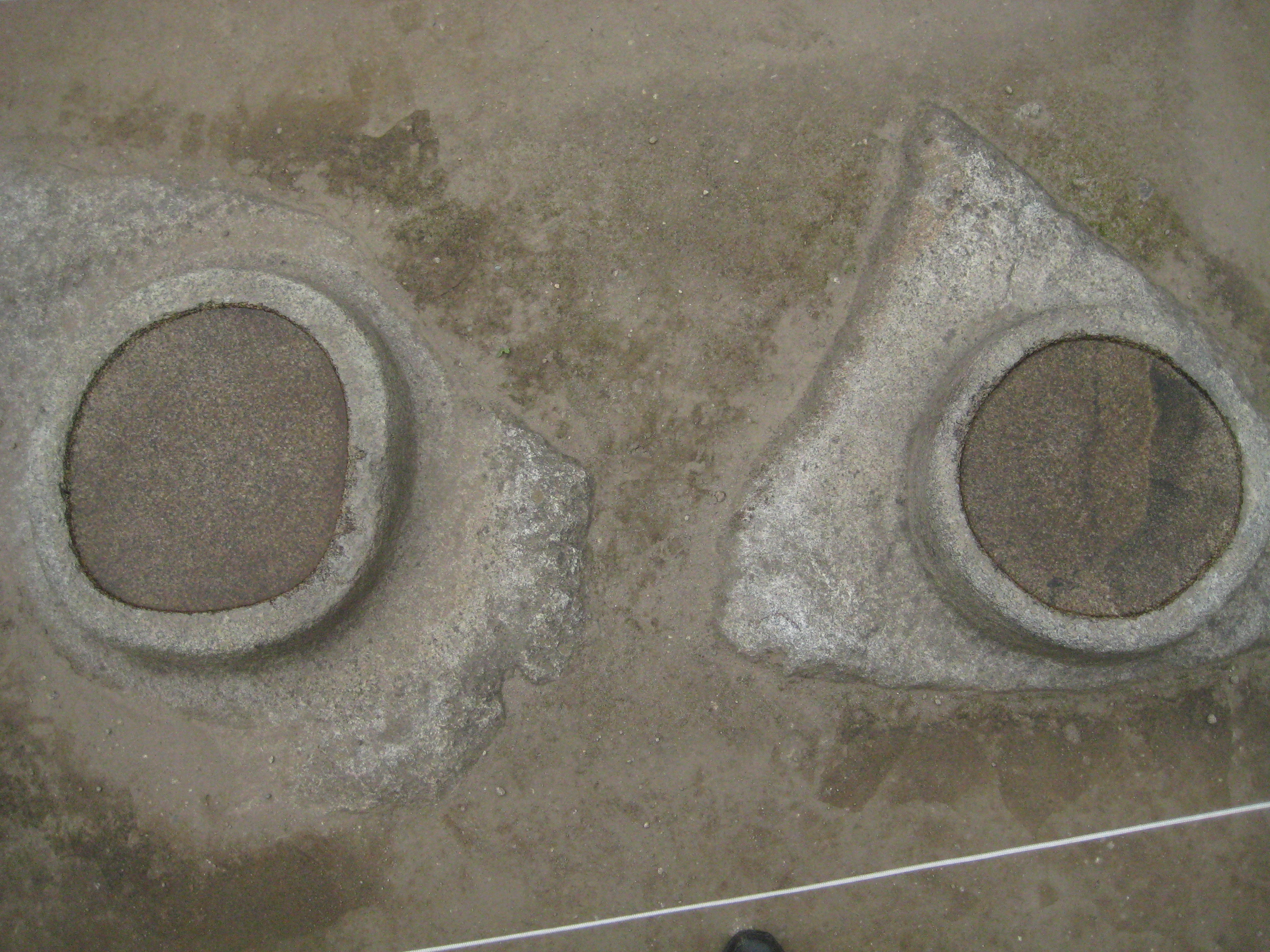 The "eyes" of Pachamama in the observatory of Machu Picchu